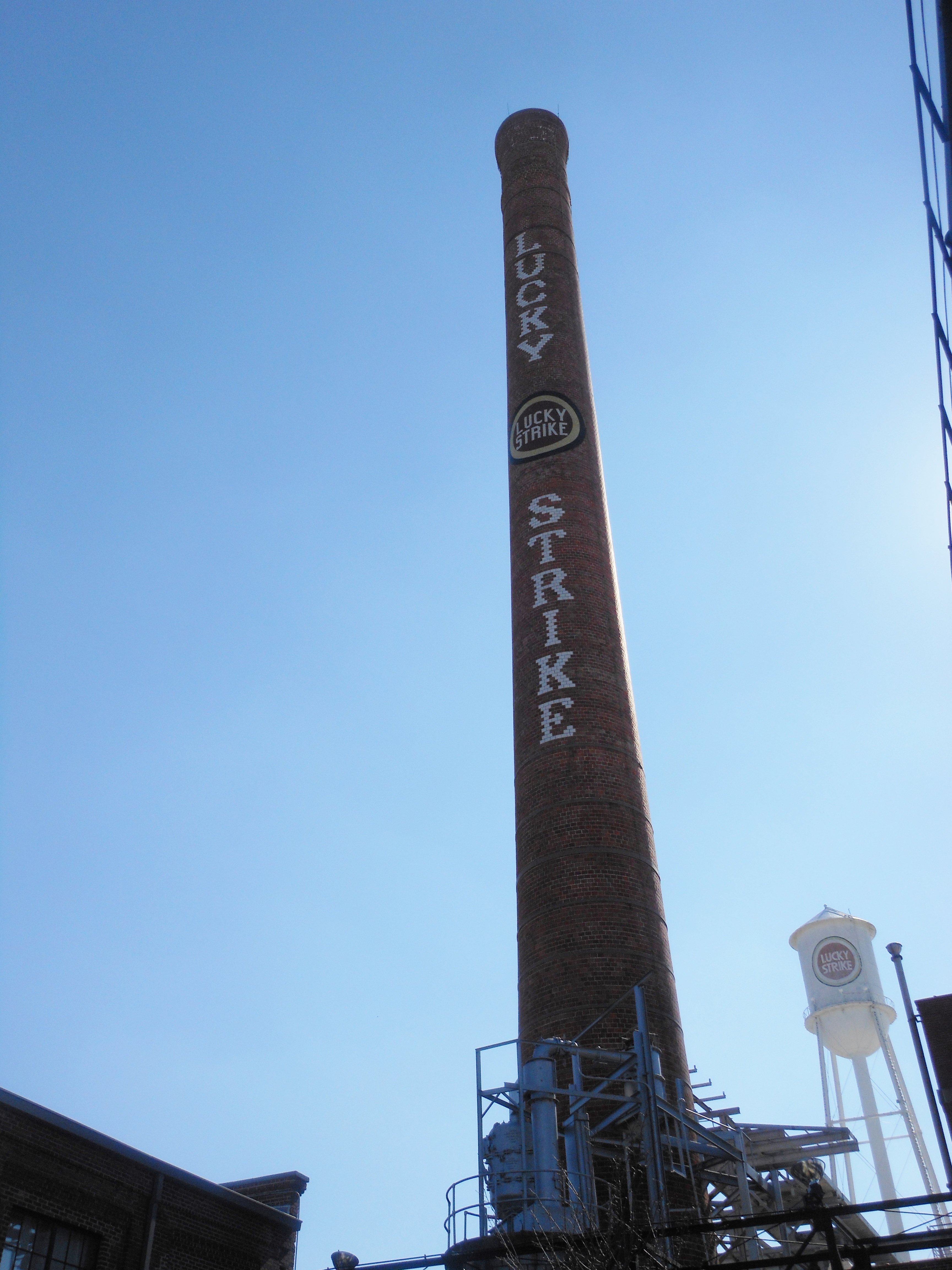 Towers from Lucky Strike tobacco factories in Durham, NC